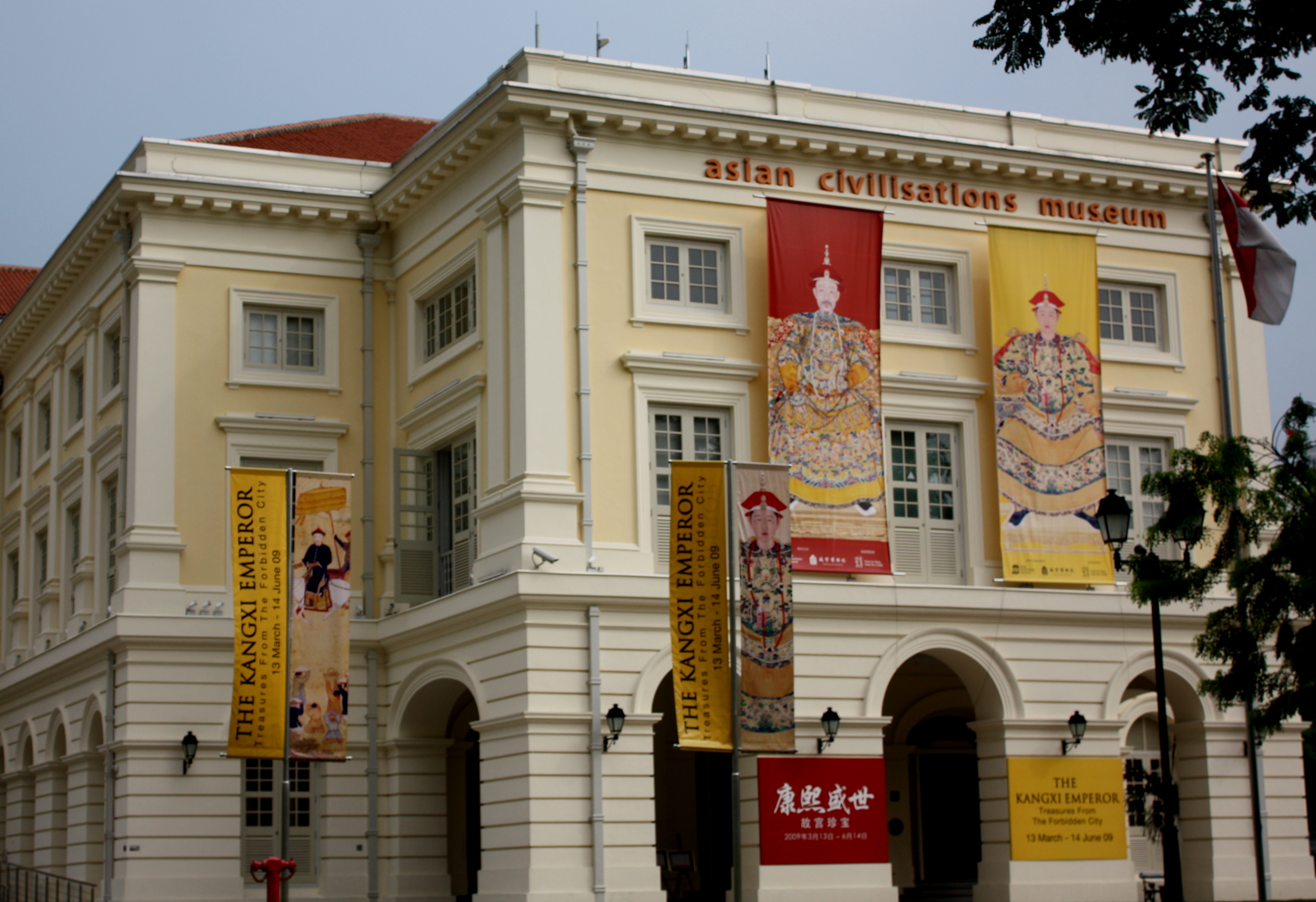 Special exhibition of the Kangxi Emperor treasures from the Forbidden City at the Asian Civilisation Museum. Photo taken by Wolfgang Holzem /